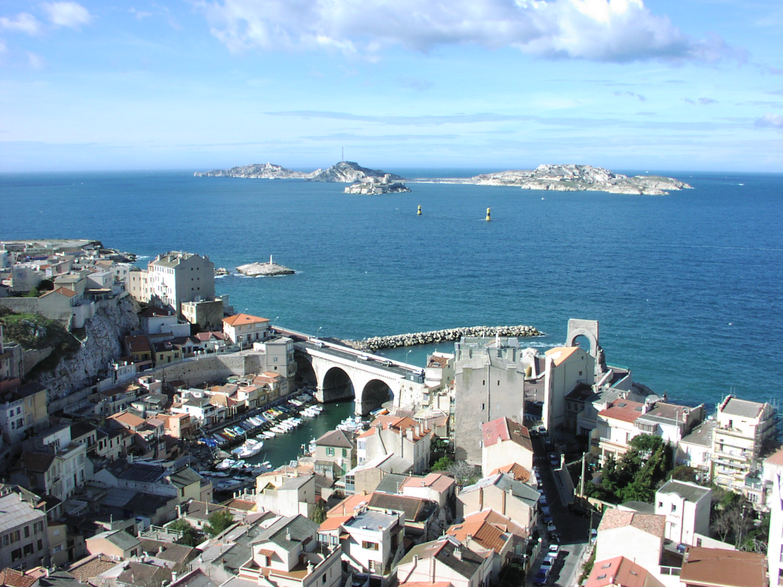 Marseilles' Roadstead, Vallon des Auffes, Frioul Islands